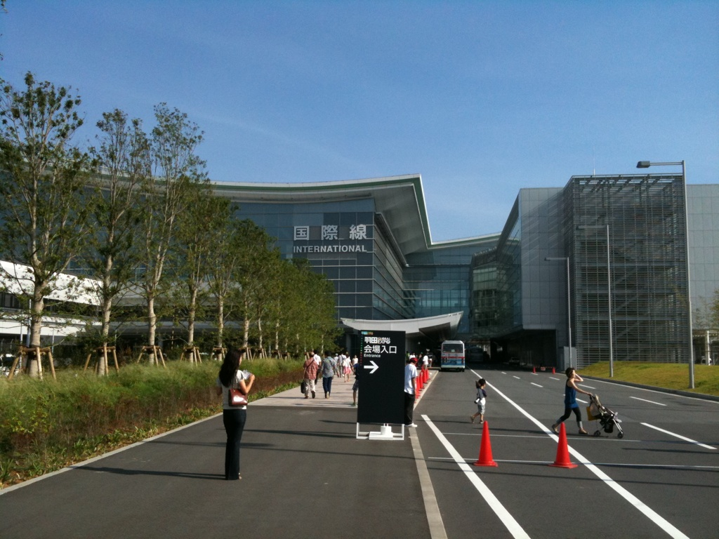 Tokyo International Airport, International Terminal ground floor outside